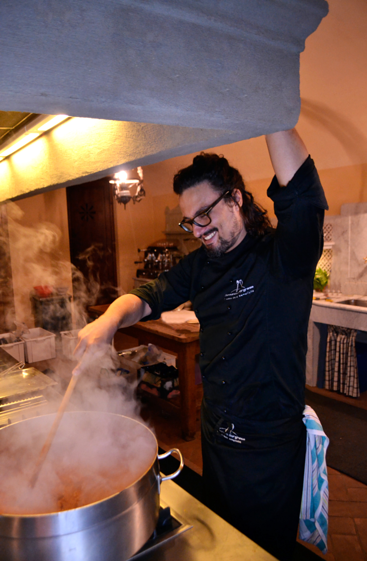 Alessandro Borghese italian chef